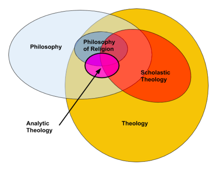 This is a very general attempt to show analytic theology's relationship to other disciplines.